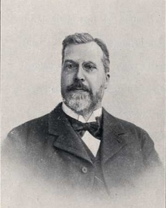 Théophile Dufour